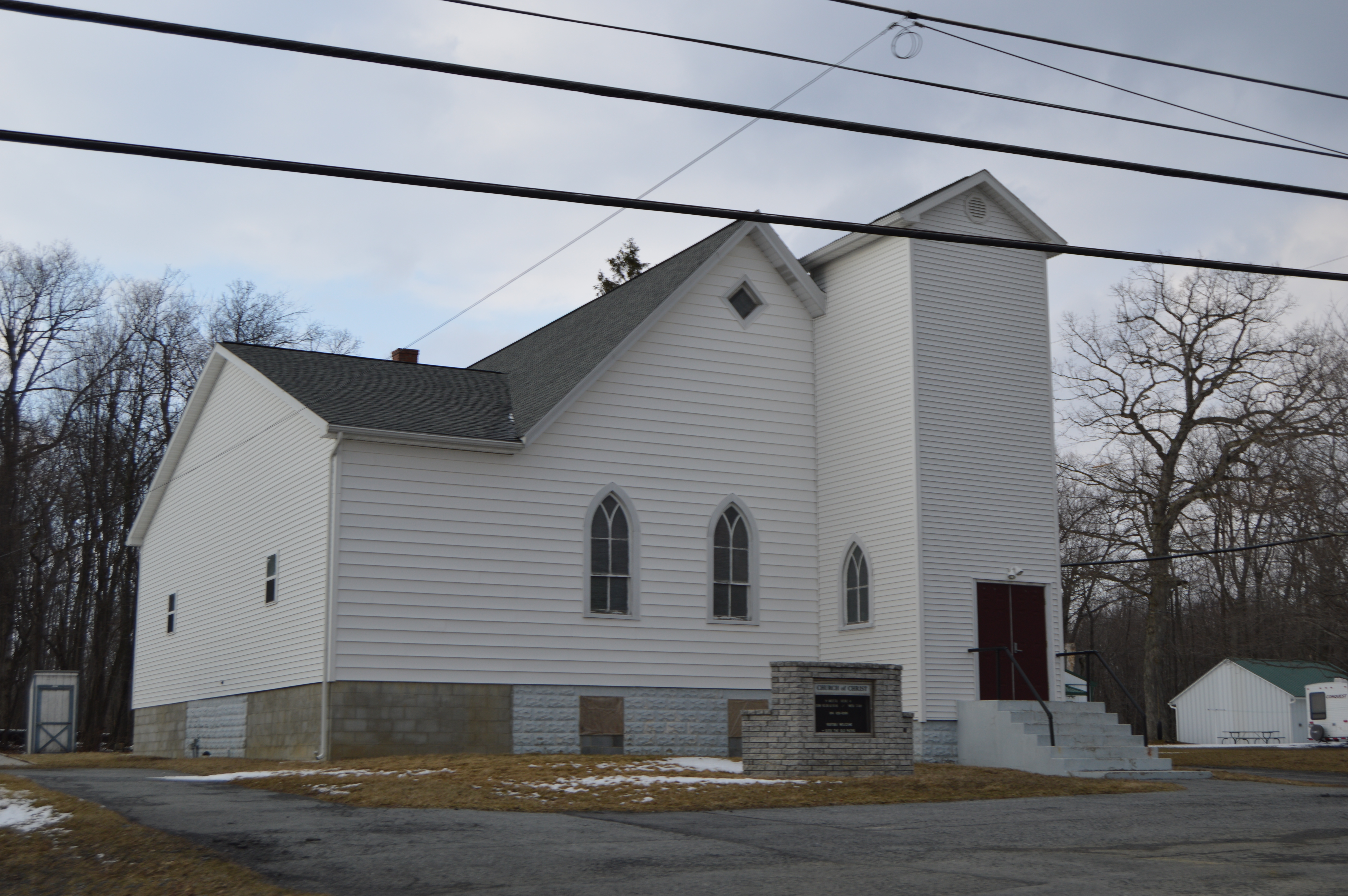 Western side and front of the Broad Top Church of Christ, located at 5117 Railroad Avenue (Pennsylvania Route 913) in Broad Top City, Pennsylvania, United States.